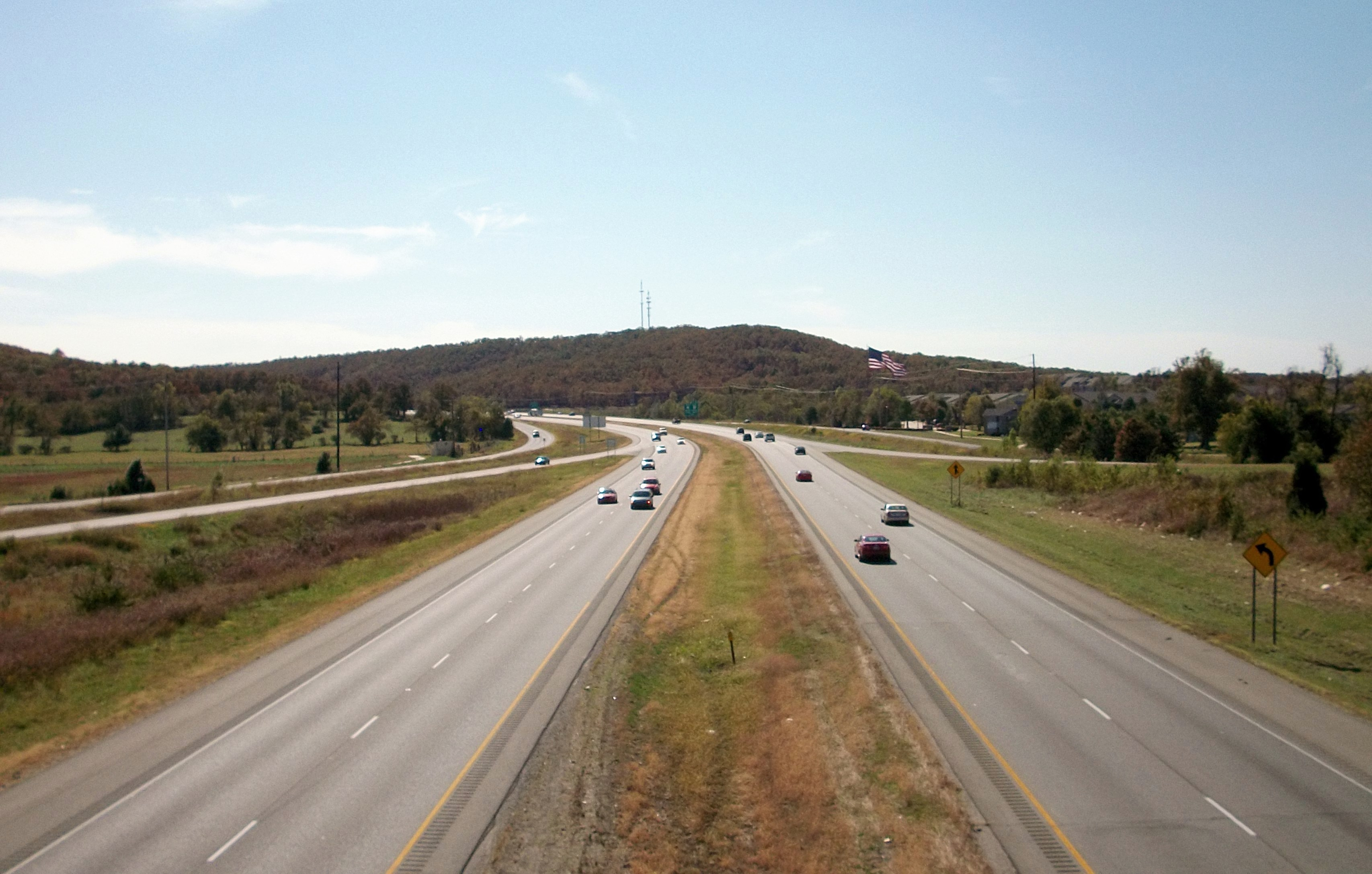 This is I-540 and US 71 curving into the Ozark Mountains in the Fayetteville, Arkansas city limits. This image is taken from the Wedington Drive overpass facing south.